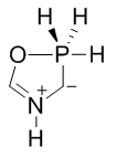 mesoionic 1,4,2-oxazaphosphole